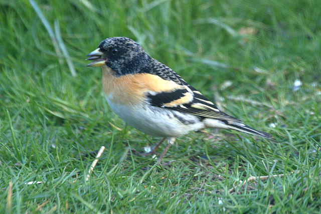 Brambling (Fringilla montifringilla), Baltasound Bramblings are close relatives of the Chaffinch but they breed in northern Europe and only rarely breed in Britain. In Shetland they are principally migrants, in both spring and autumn. Males, such as this bird, acquire their summer plumage through the abrasion of buffy tips on the black feathers, and not through moult.